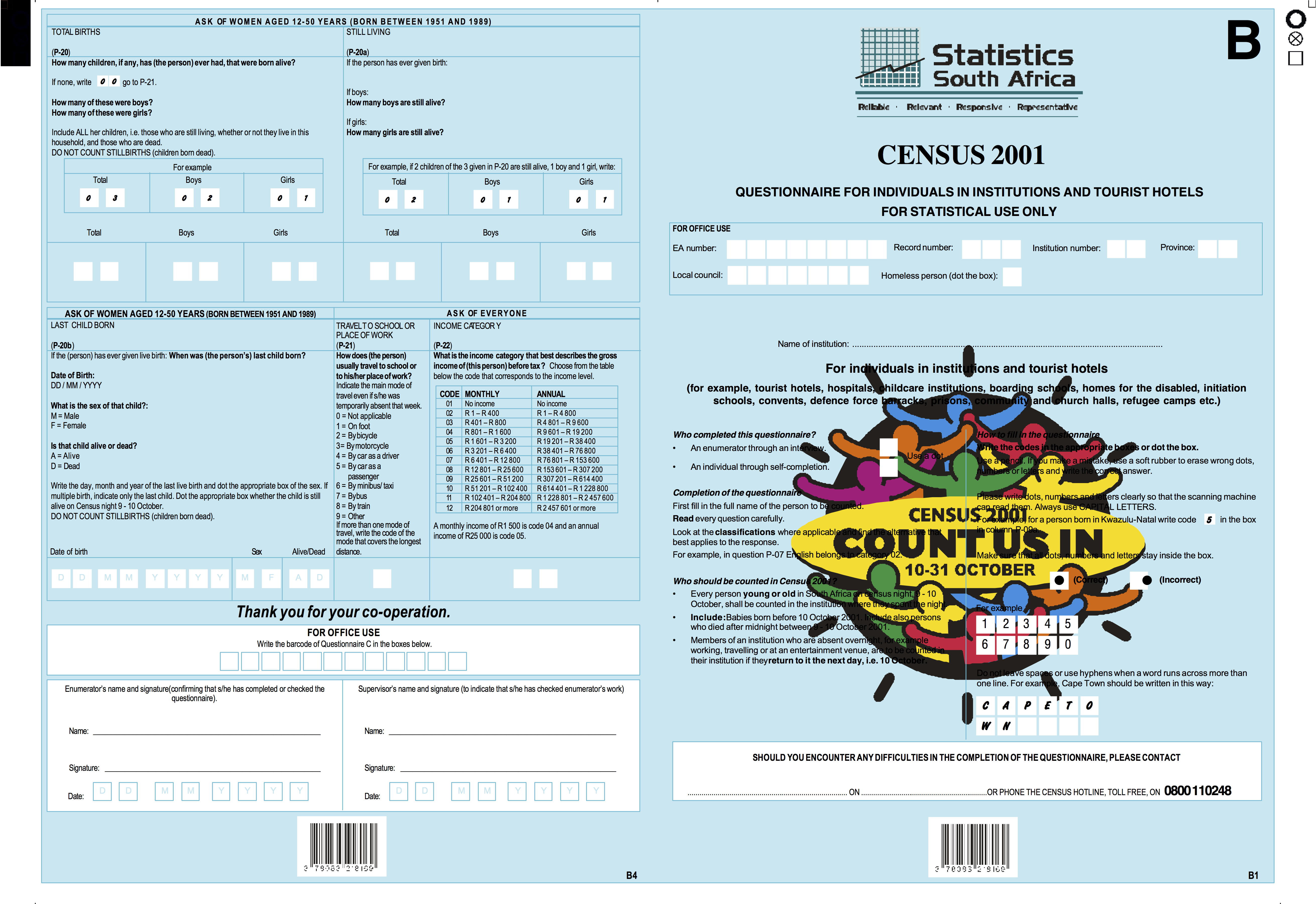 This is the cover page of the 2001 South African National Census for questionnaire B.